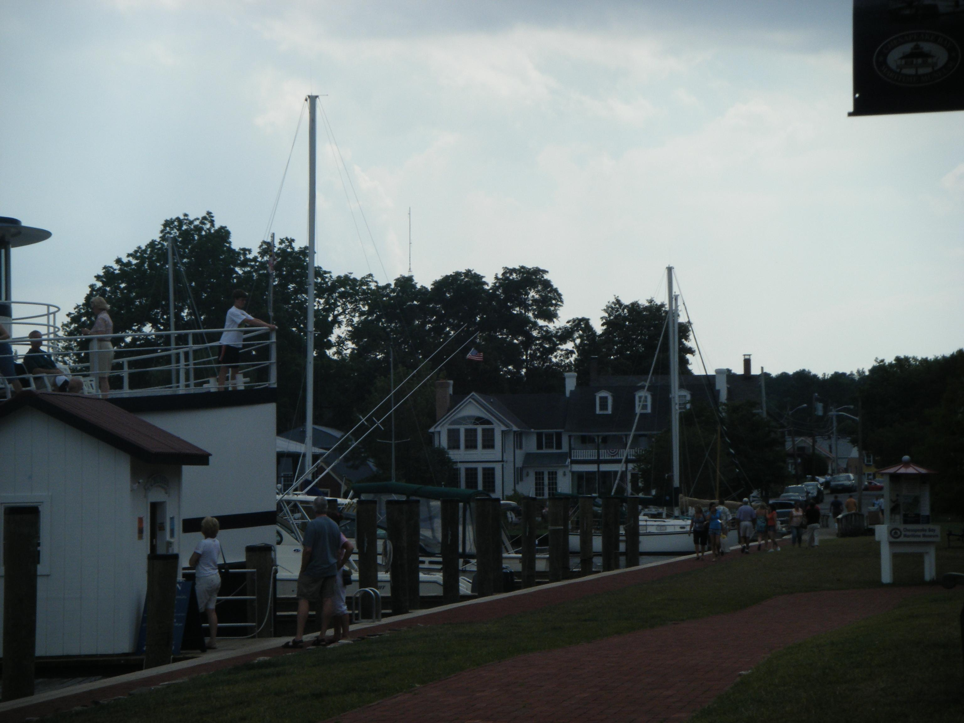 A view of the harbor in St. Michaels, Maryland, looking toward Cherry Street